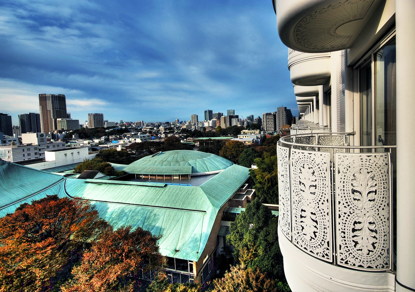 An aerial view from my hotel room balcony. HDR from 1 image. Special thanks to JTB for their excellent co-ordination and wonderful hospitality.